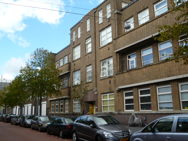 The Hague (the Netherlands), Pletterijstraat 66, former Jewish orphanage (1932-1943)